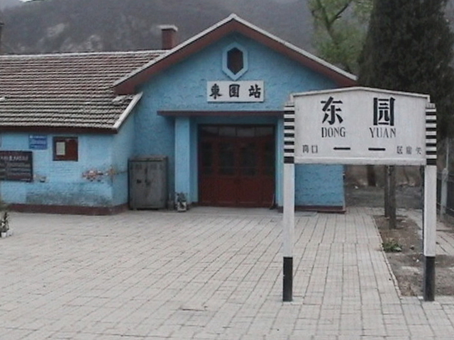 Dongyuan railway station 40°16.4′ N, 116°05.5′ E 2006-04-16 09:50:22 UTC